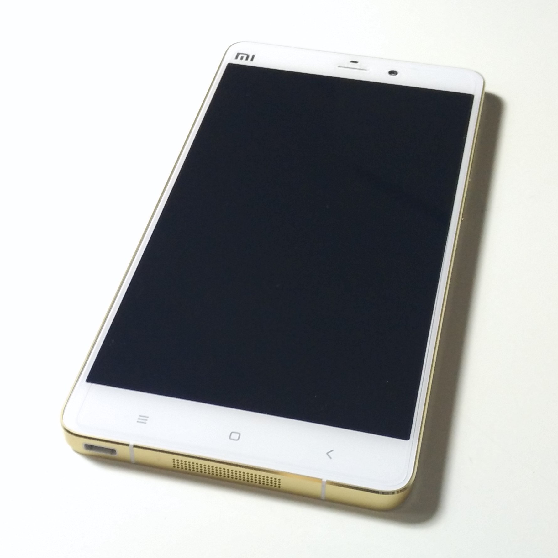 Mi Note Pro is the most powerful smartphone made by Xiaomi in 2015.